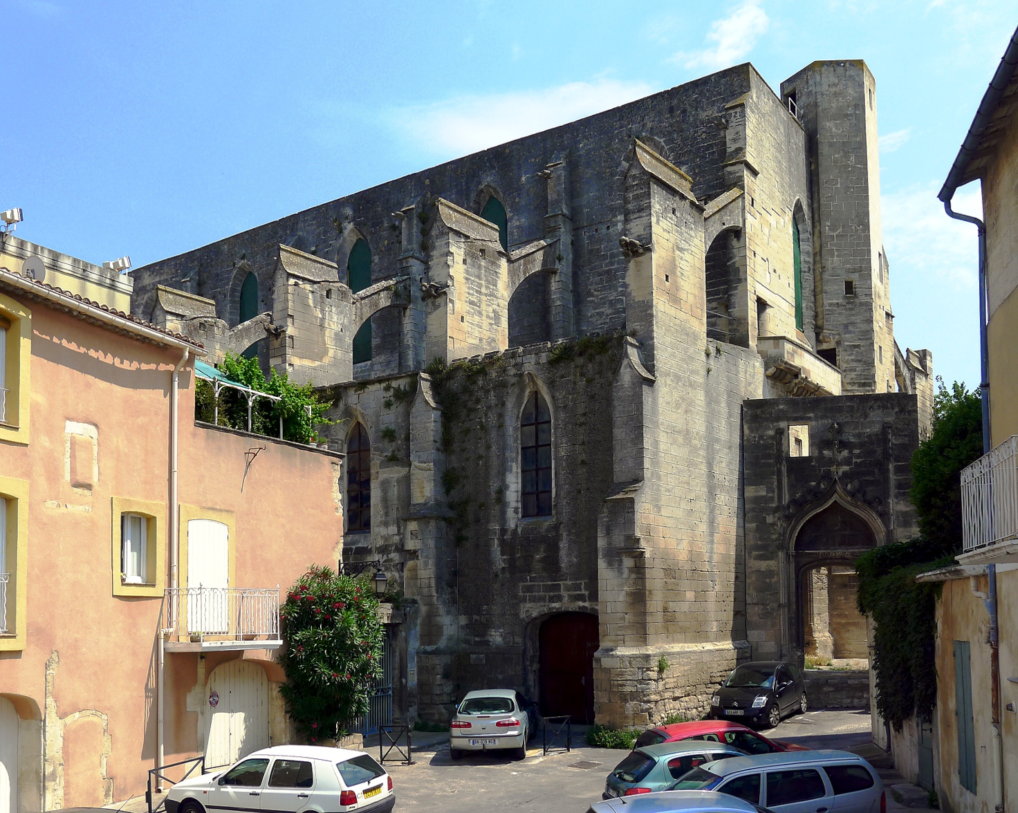 Dominicains church - Arles, France